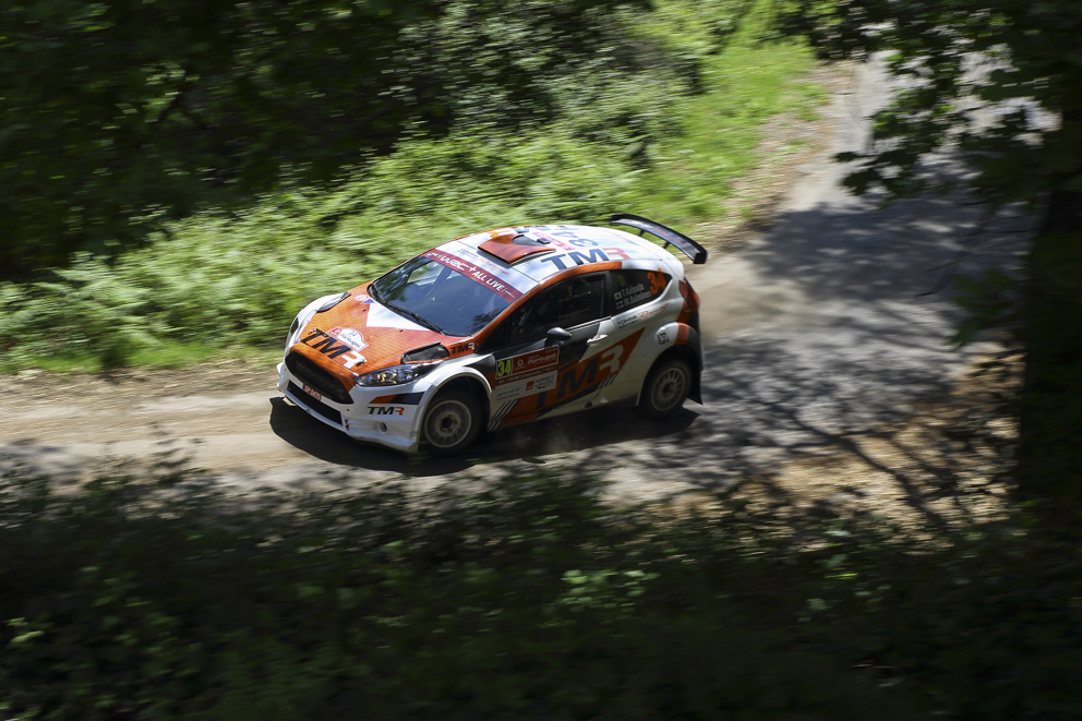 Stage of Ponte de Lima.